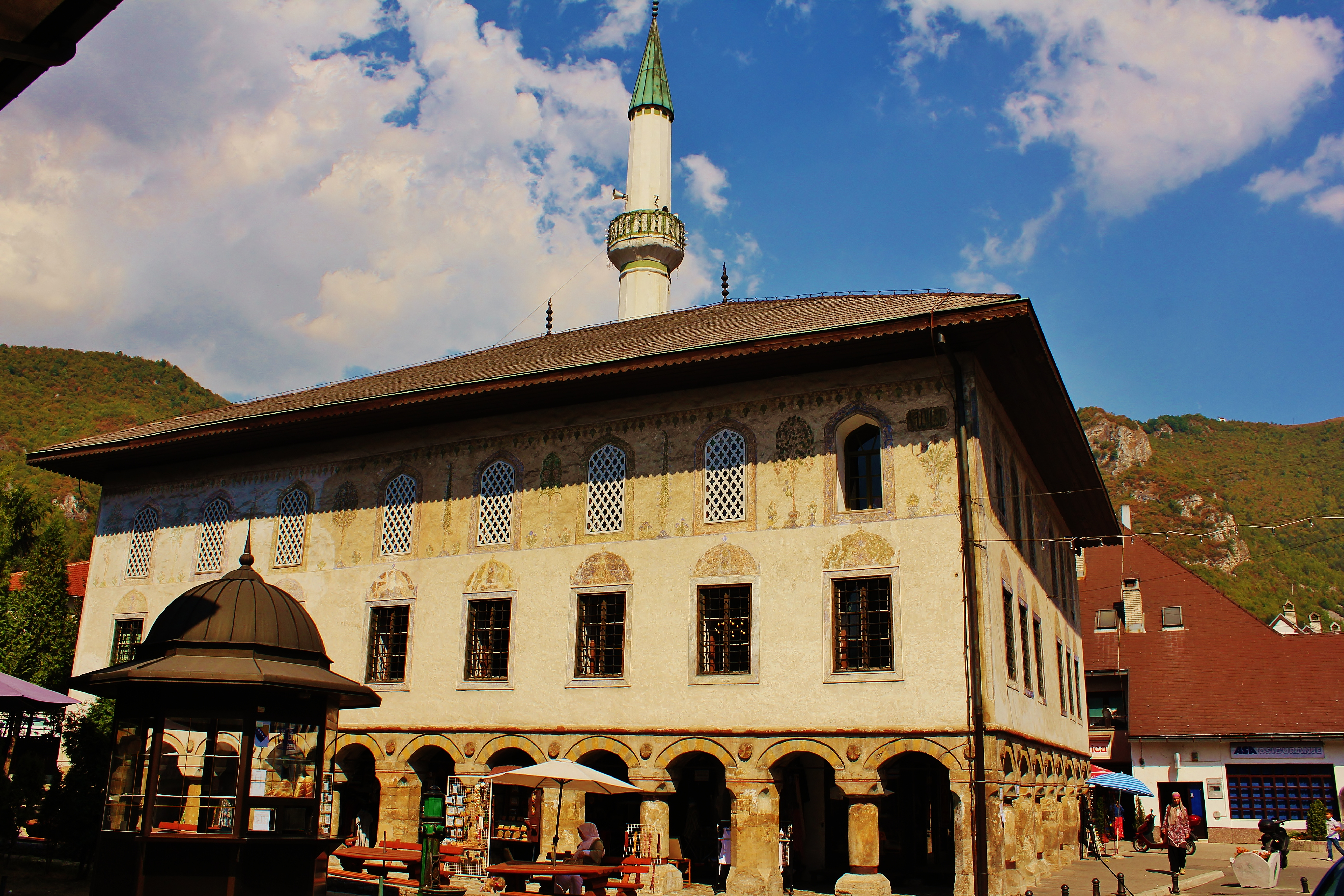 Travnik. Suleimania Mosque (Bosnia and Herzegovina)